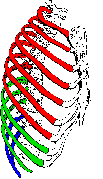 Human ribs: trues, false and floating